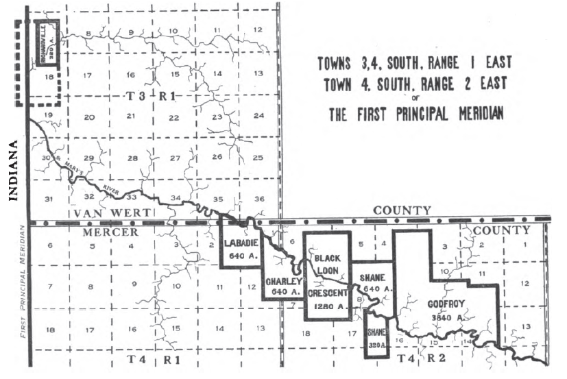 Map of federal land grants to Indian individuals in northwest Ohio known as the Indian Land Grants